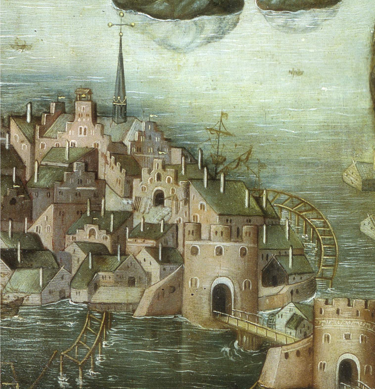 Detail from Vädersolstavlan showing southern part of Gamla stan (including Järntorget, Stockholm, Södra Bankohuset, and the Blackfriars monastery (with a ridge turret).